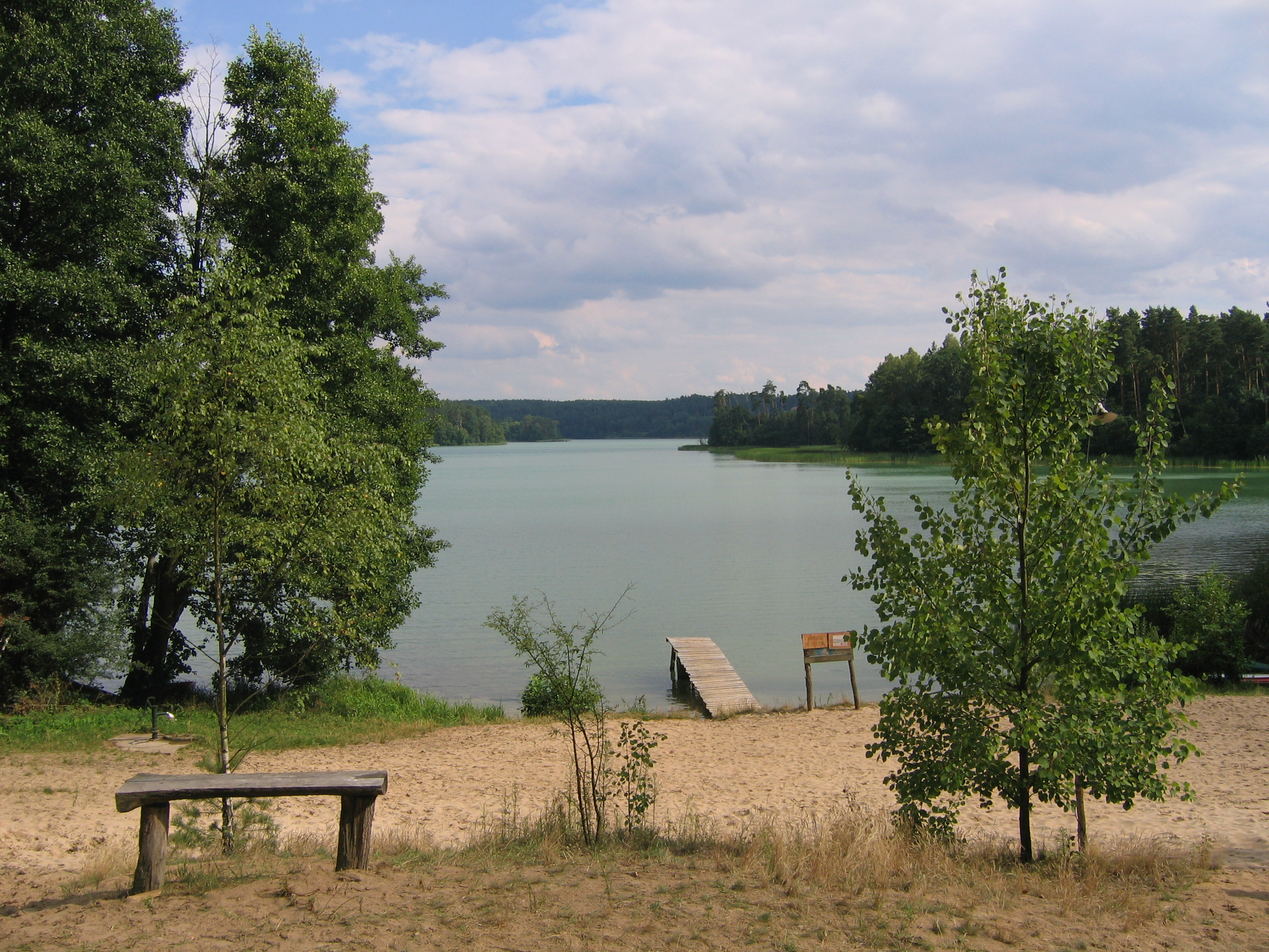 Beach on the Zbiczno lake, near town of Brodnica, Poland